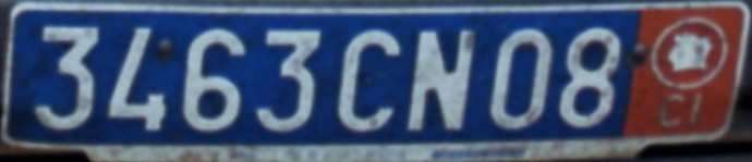 License plate from Côte d'Ivoire